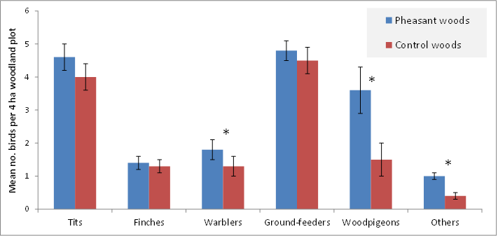 Pheasant woods vs unmanaged woods